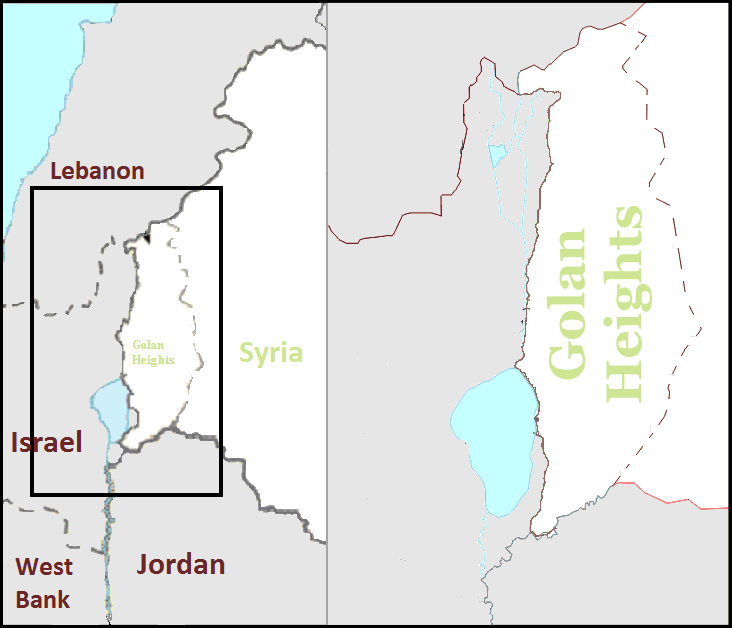 Golan Heights for location maps.